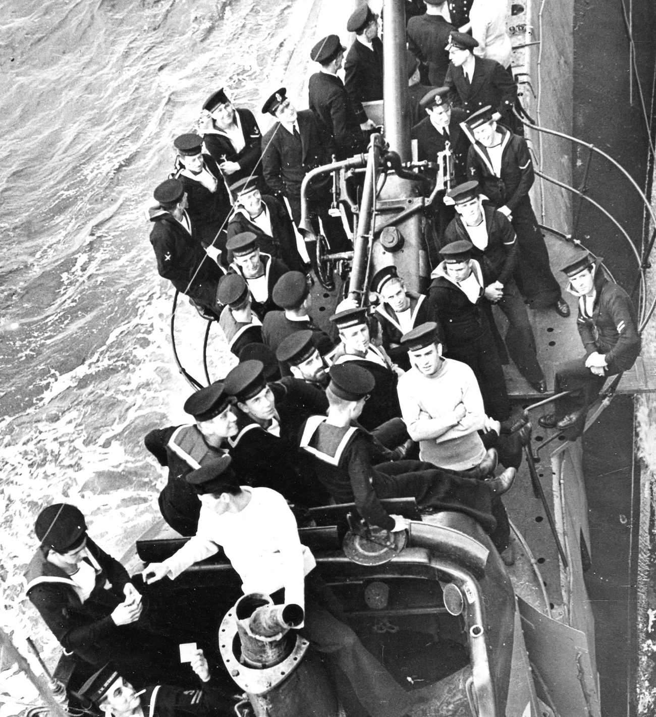 Officers and men of the HMS Sealion back home after dangerous action at Sea.